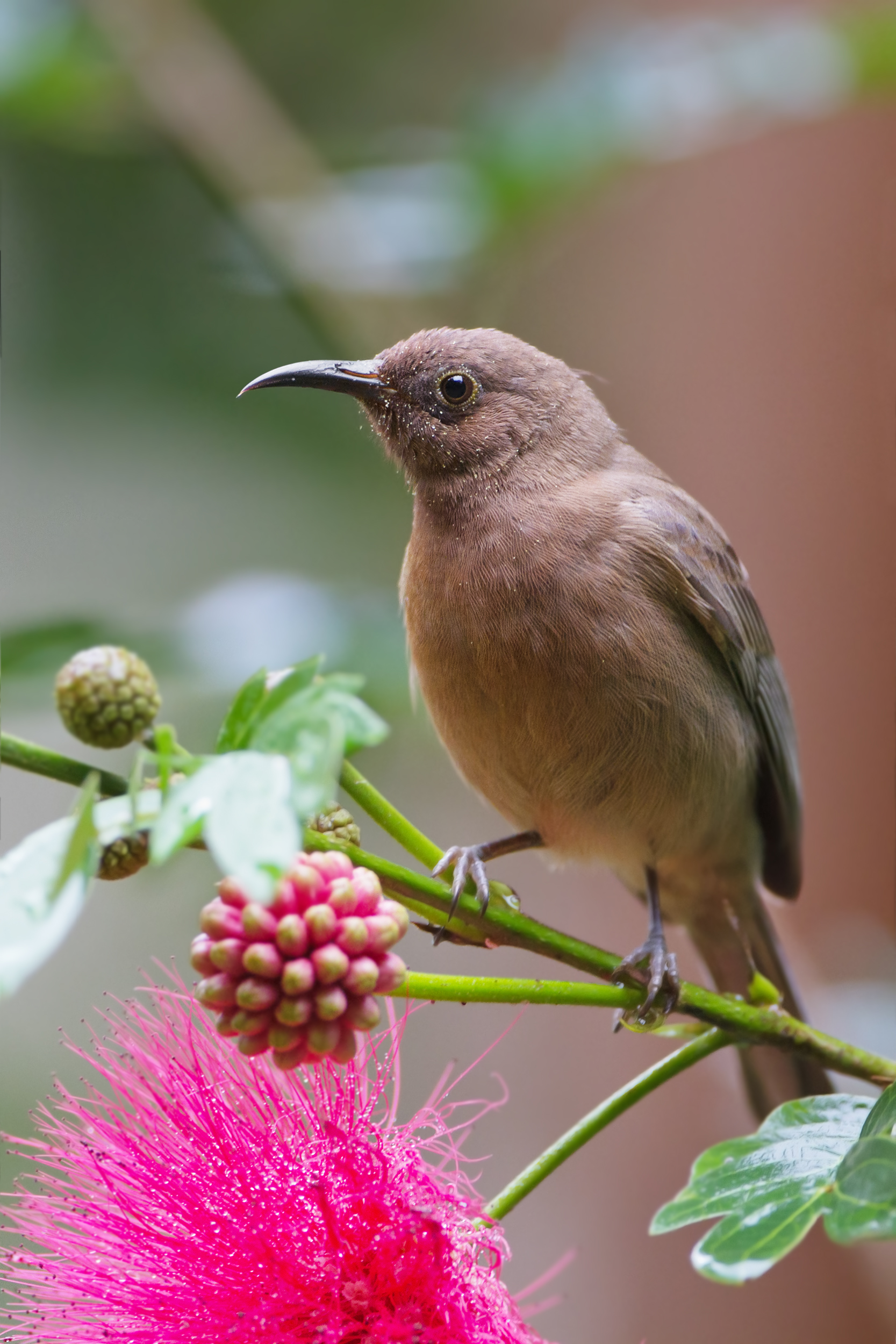 Dusky Honeyeater (Myzomela obscura), Daintree Villiage, Queensland, Australia